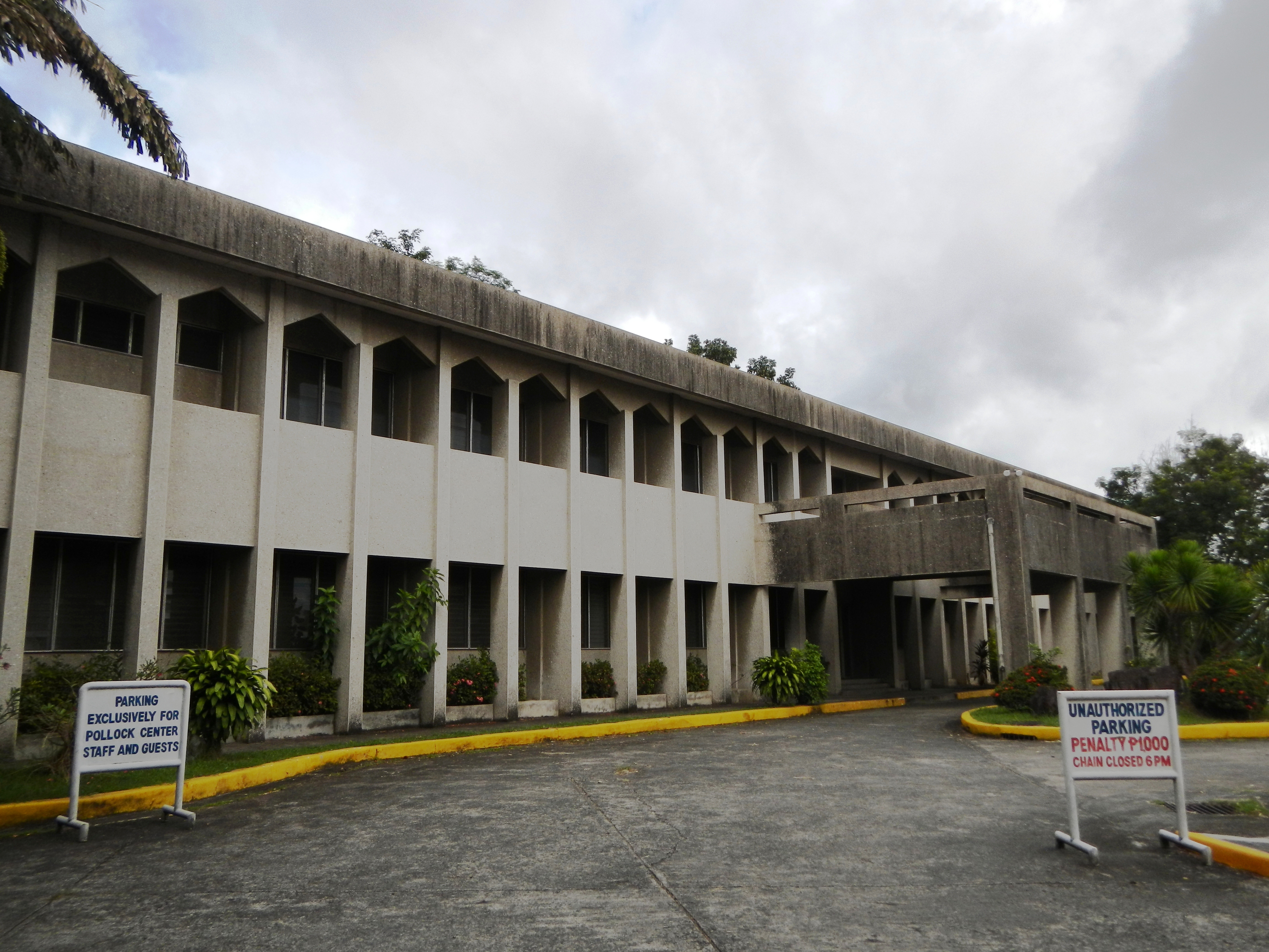 John Pollock Renewal Center - Ateneo de Manila University [1]